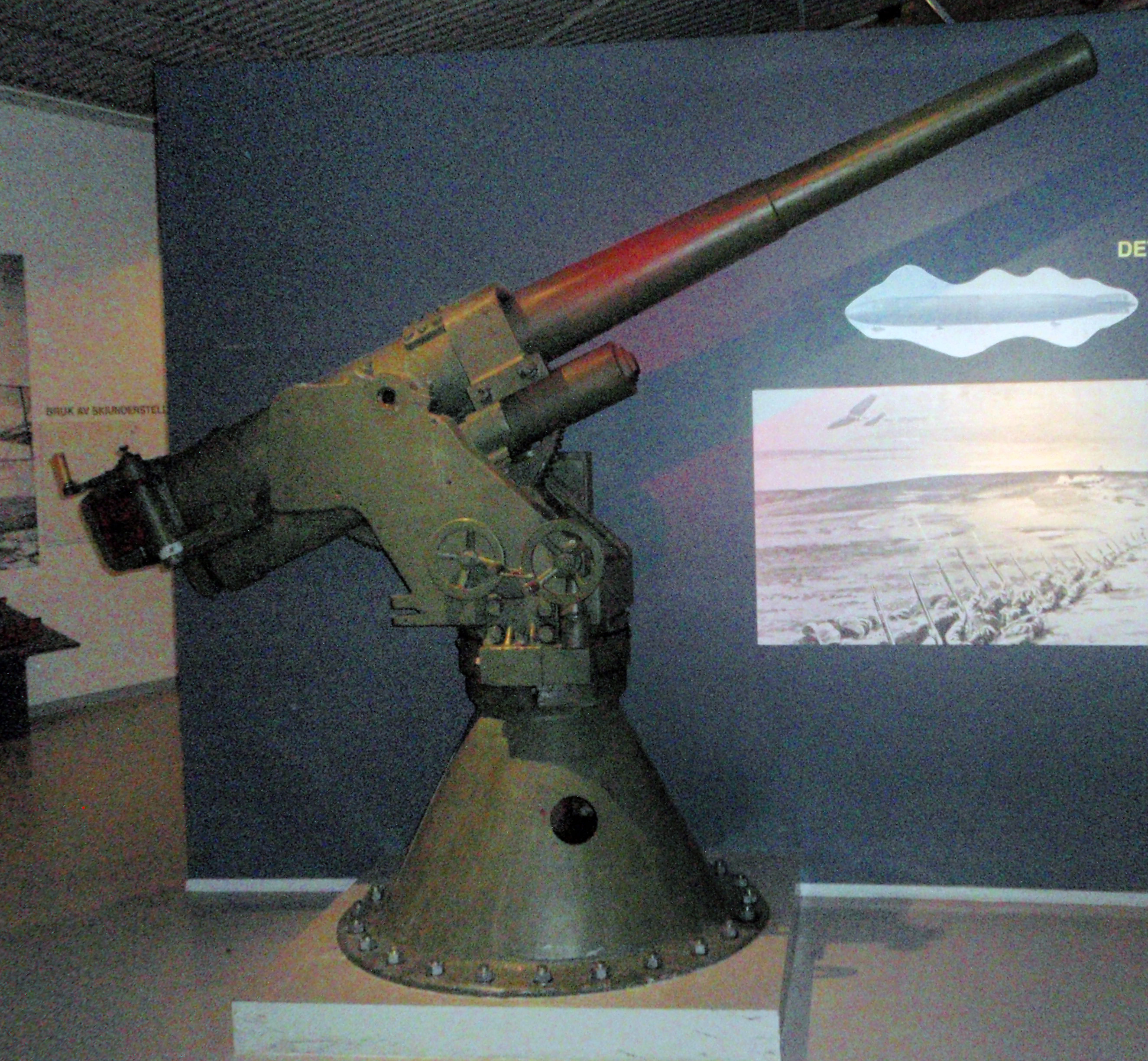 A 7.5 cm L/45 M/16 anti-aircraft gun on display at the Norwegian Aviation Museum in Bodø, Norway.